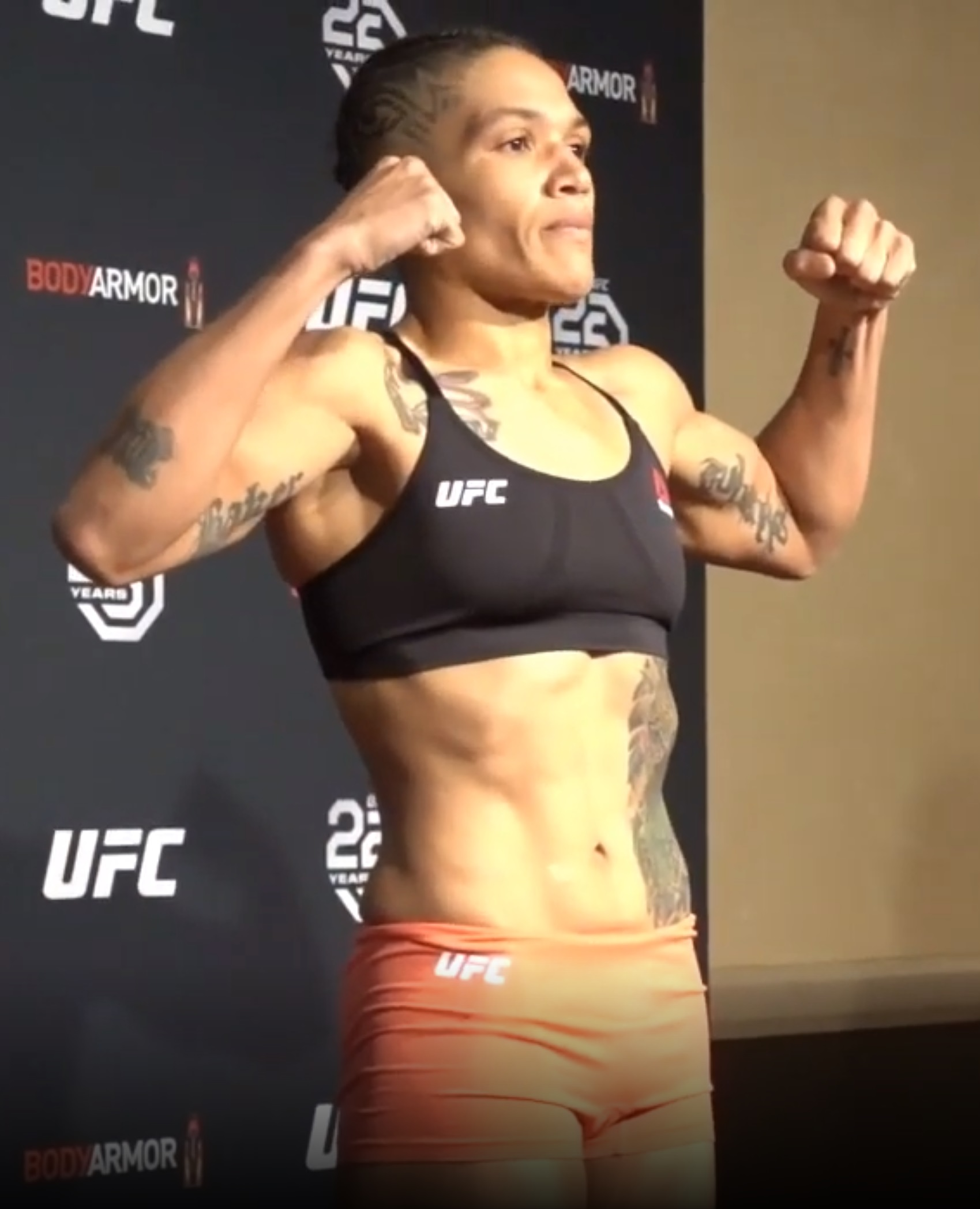 SIJARA EUBANKS MISSES WEIGHT FOR UFC 230 American mixed martial artist Sijara Eubanks poses after her weigh-in at Ultimate Fighting Champshionship 230. UFC #UFC230 #ConorMcGregor Visit Europe's biggest MMA website Follow us on our Social Media channels: Facebook: Instagram: Twitter